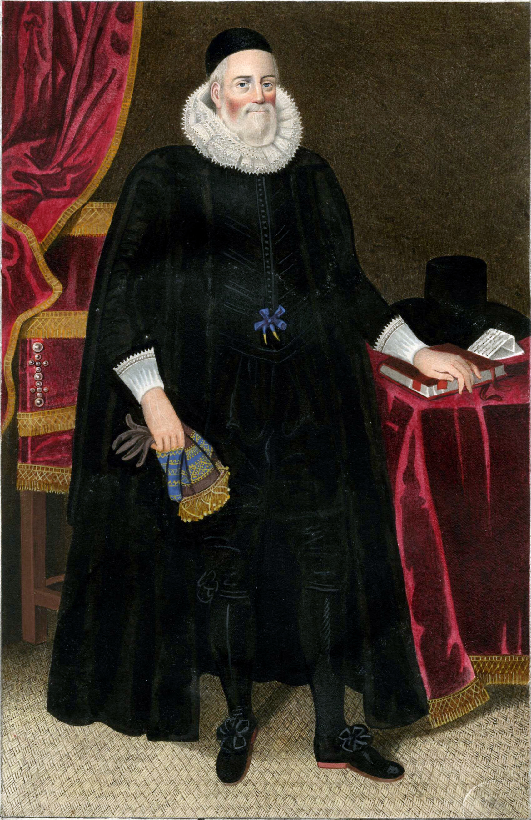 Portrait of Sir Henry Savile